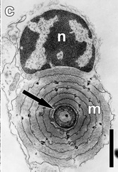 Extrusion apparatus of Convolutriloba hastifera consisting of a sagittocyst (black arrowhead) and a wrapping muscle mantle. Abbreviations: m muscle mantle; n nucleus of muscle mantle. Scale bar: 2 μm